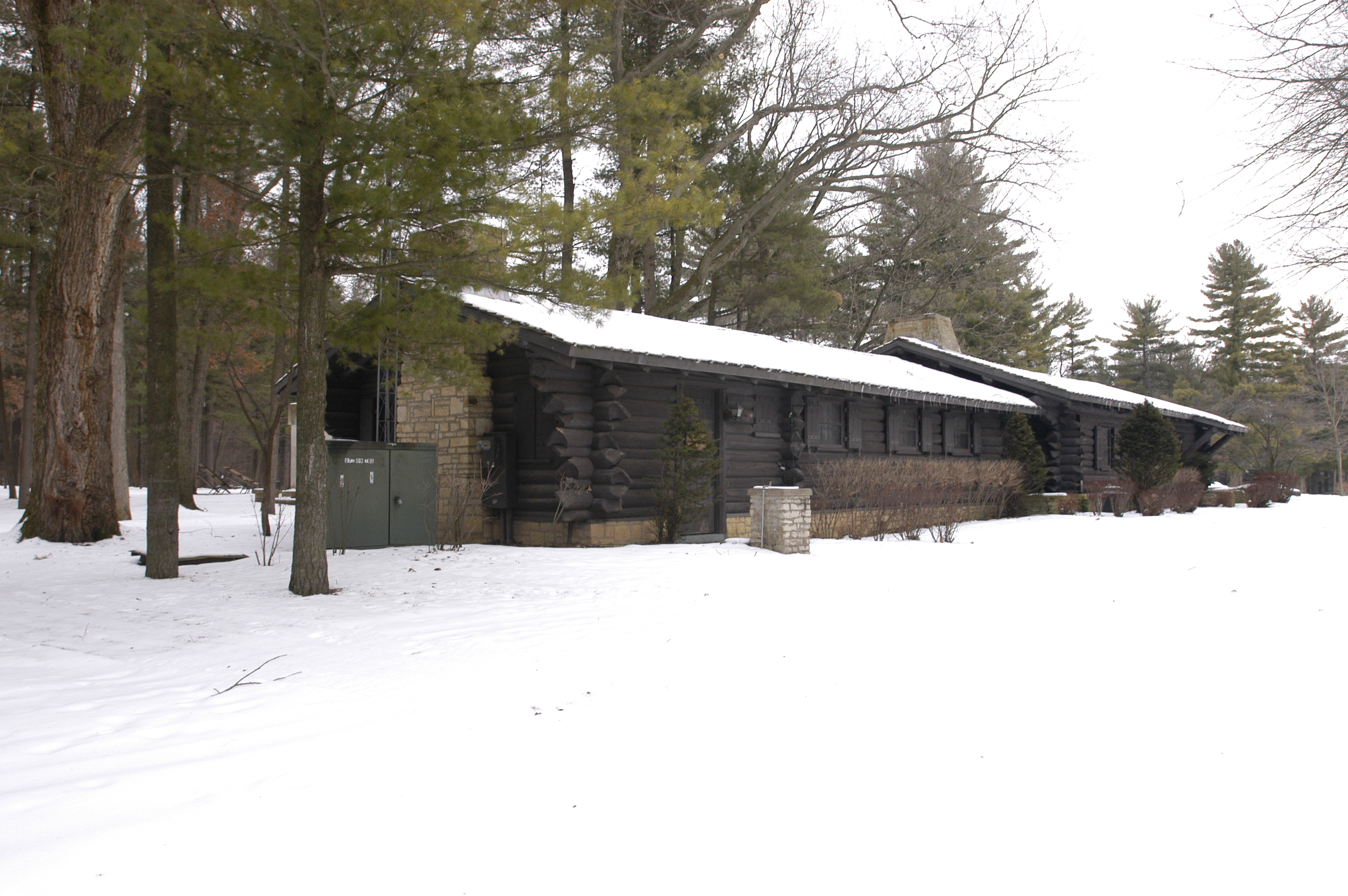 White Pines State Park Lodge and Cabins in White Pines Forest State Park, near Mt. Morris and Polo, Illinois. National Register of Historic Places.